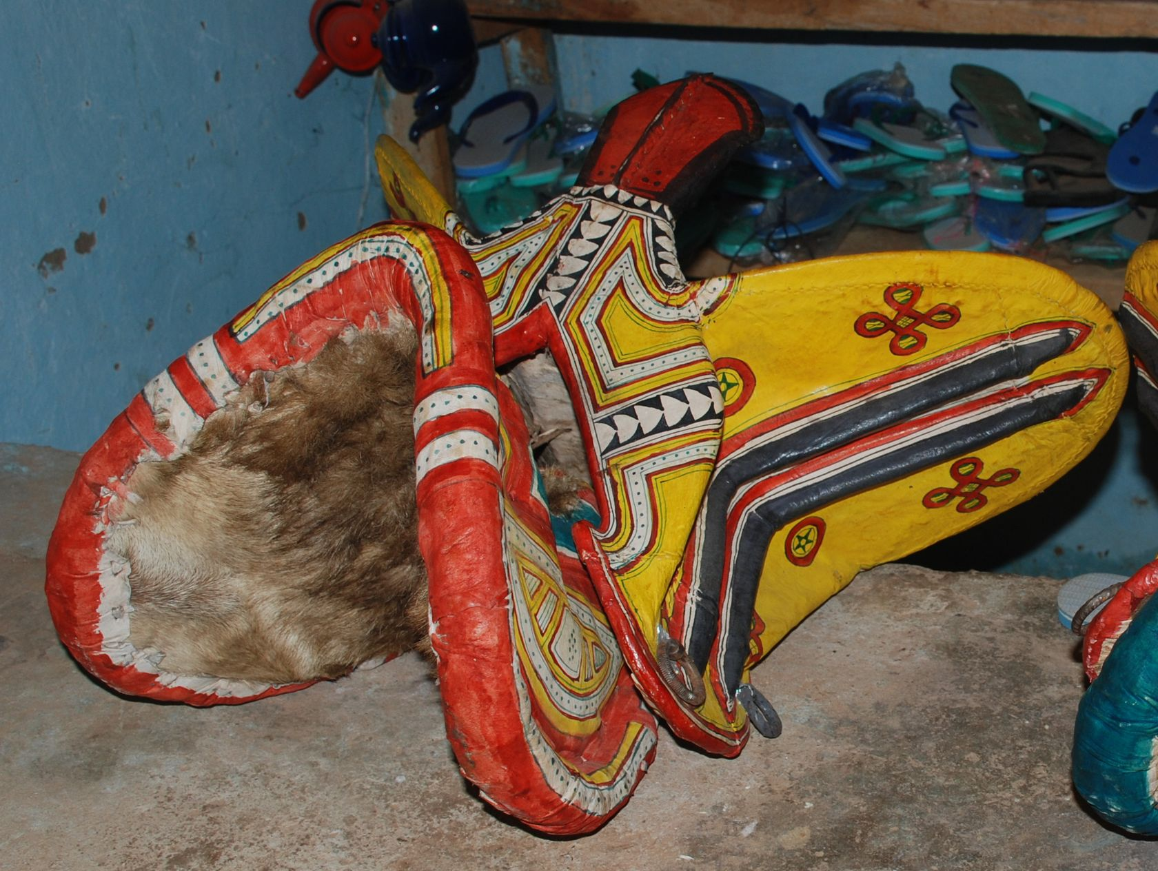 Rahla, saddle for camel, Tidjikja, Mauritania